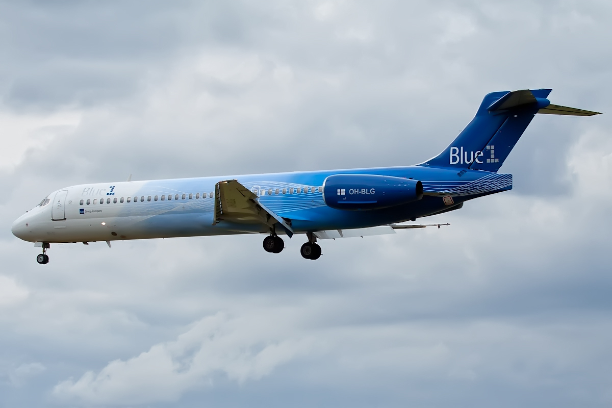 A Blue1 Boeing 717-2CM aircraft (OH-BLG, cn 55059) on final approach at London Heathrow Airport